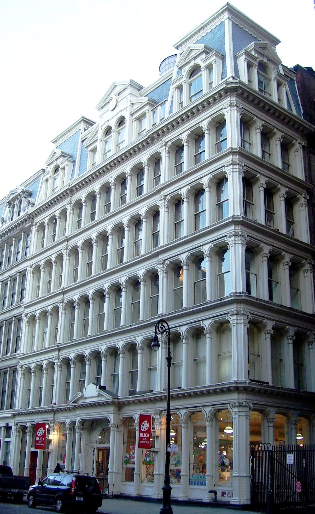 The Robbins & Appleton Building at 1-5 Bond Street between Broadway and Bleecker Street in the NoHo district of Manhattan, New York City. To the left can be seen part of 7-9 Bond Street.